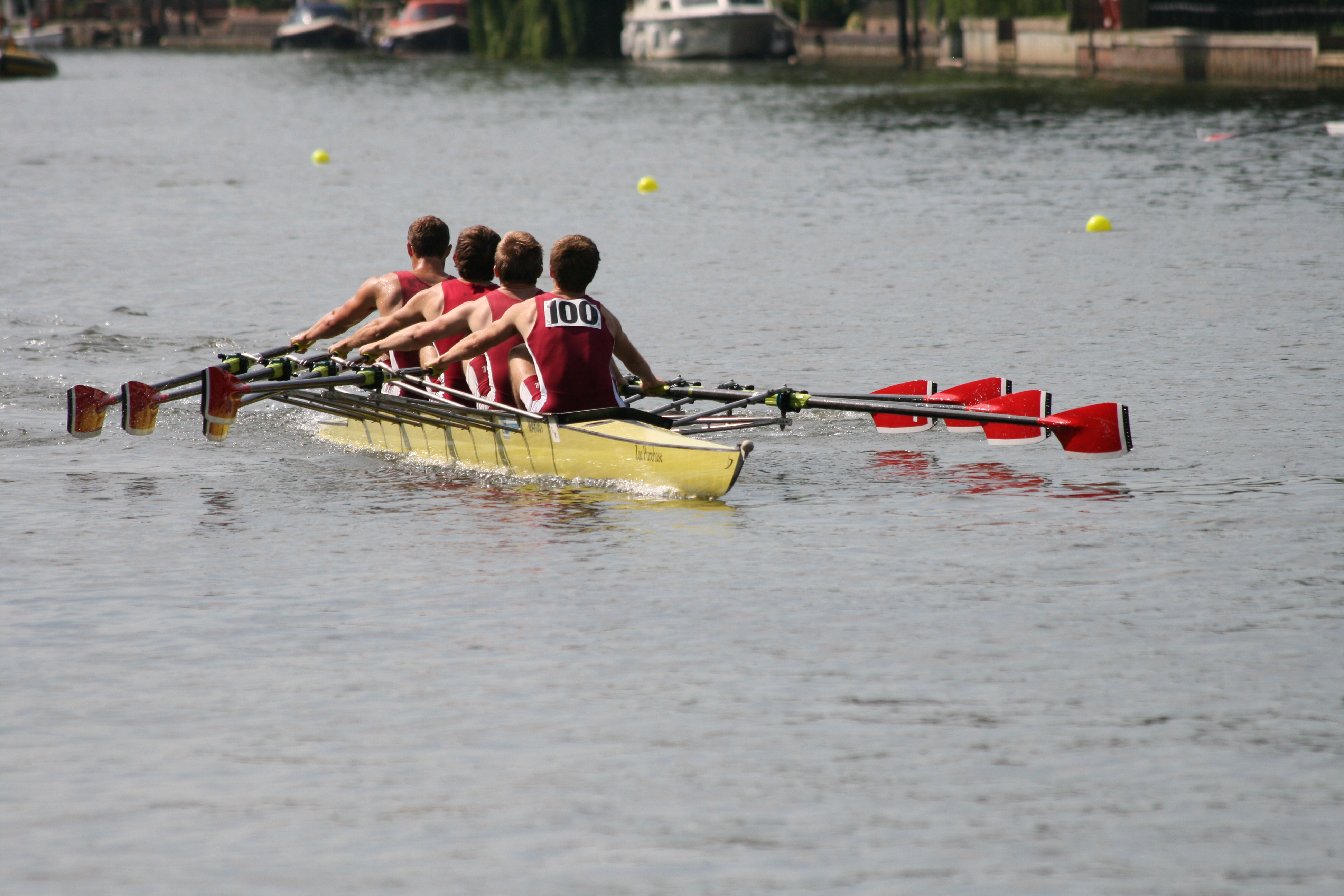 Marlow Rowing Club 4x Maidenhead Regatta 2009